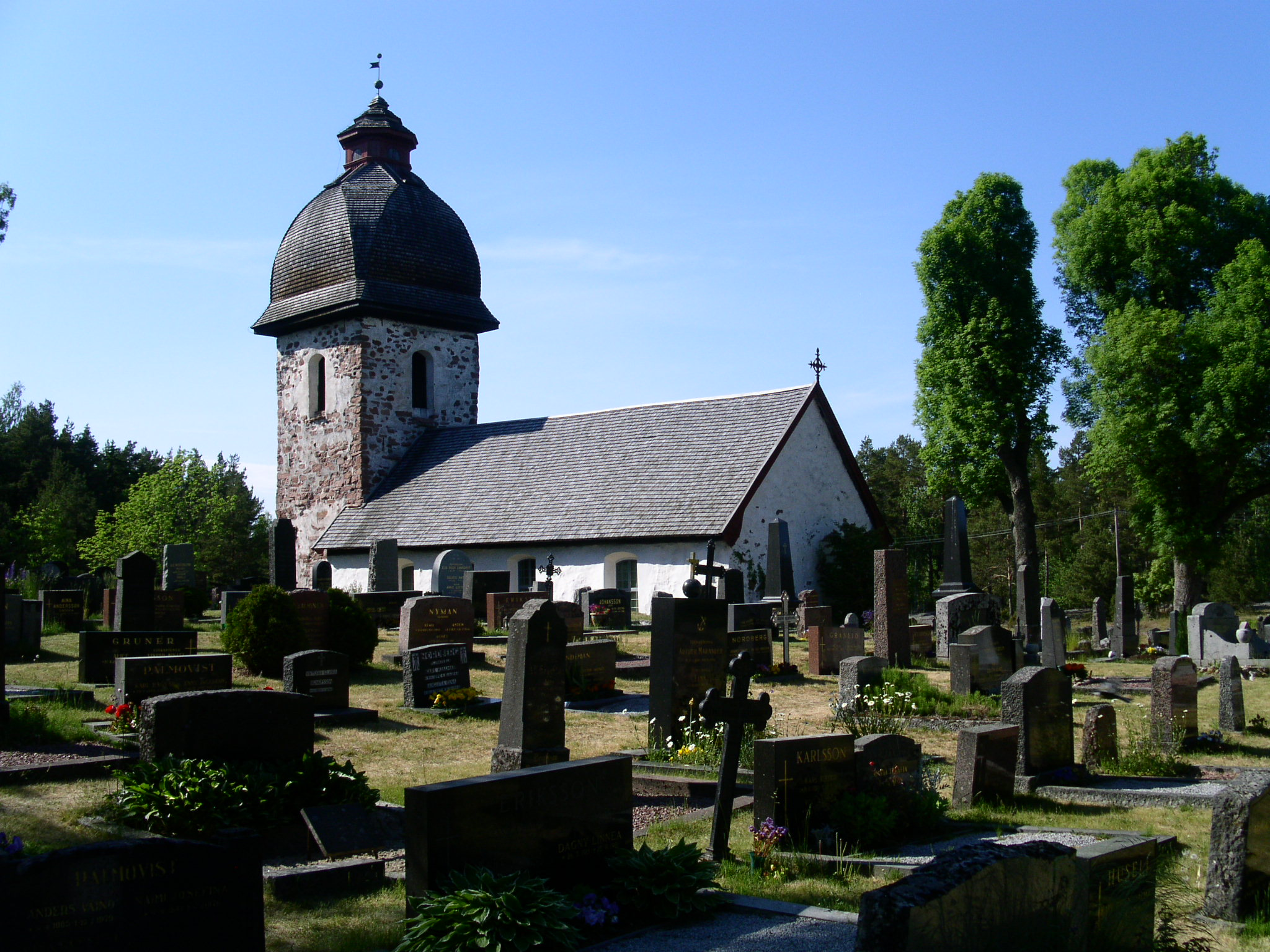 Vårdö church, Åland, from south east side